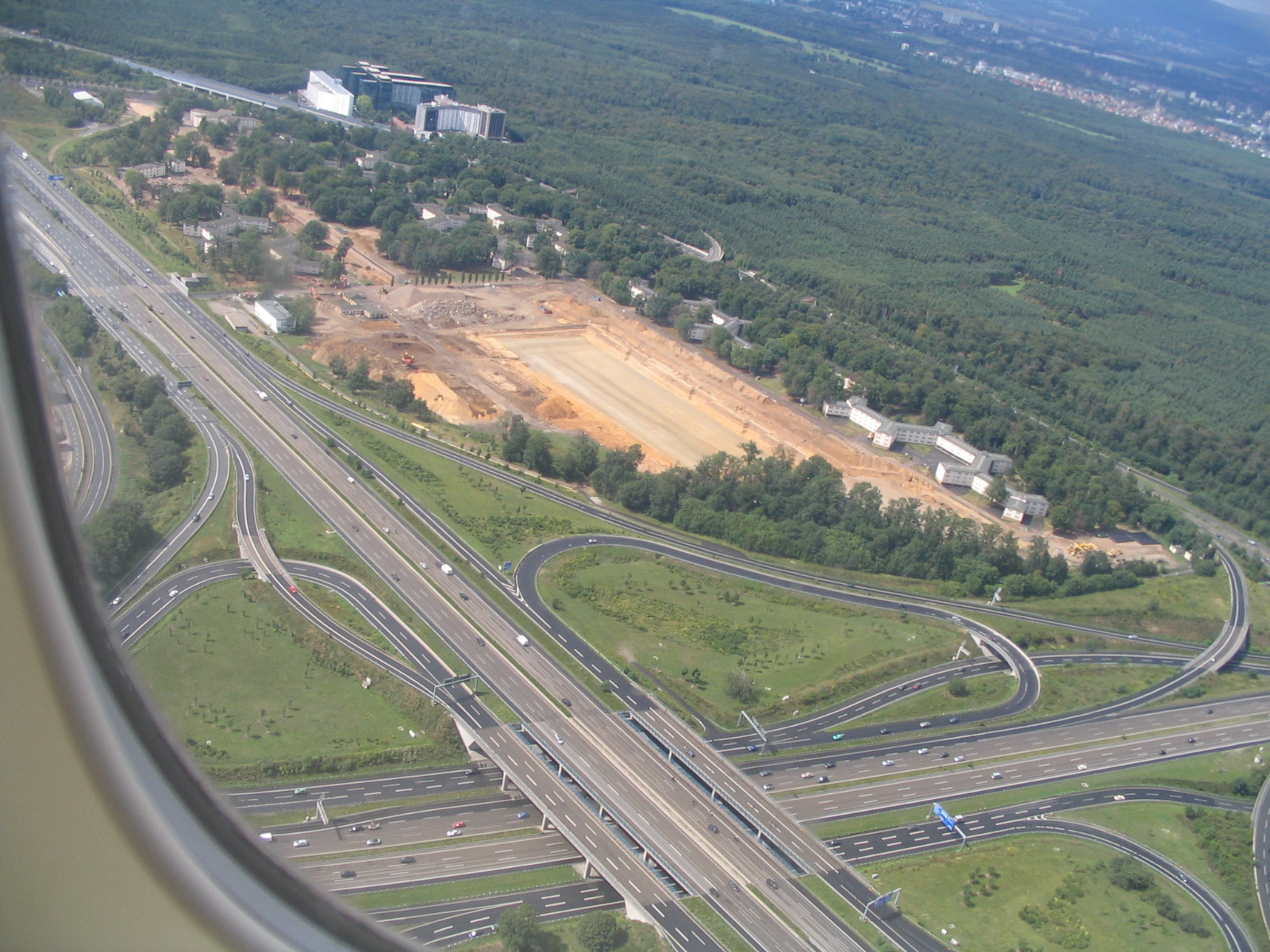 Intersection of E42 and E451 (A5 and A3) as seen from a Lufthansa Boeing 747 soon after takeoff from Frankfurt International Airport